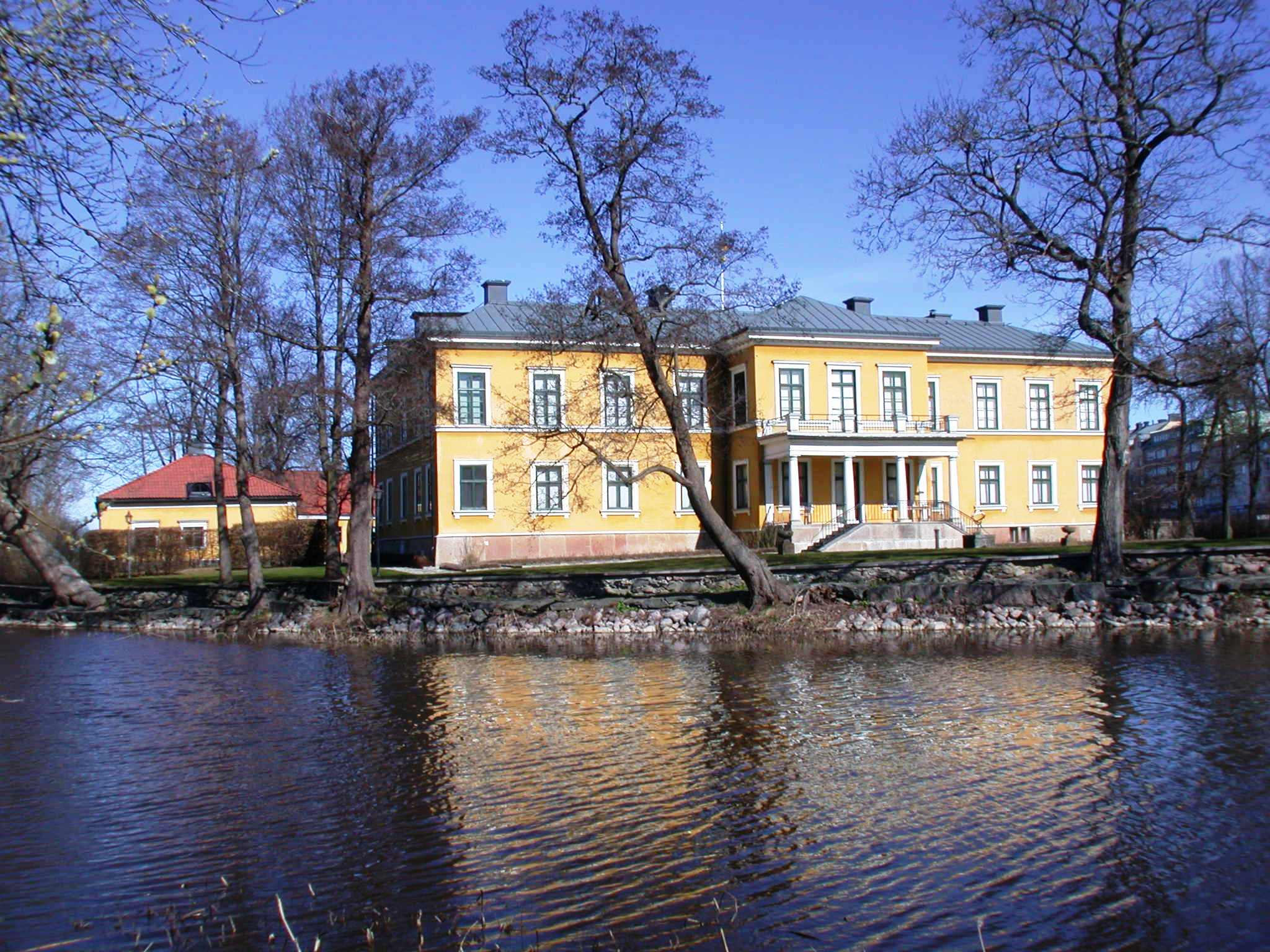 The county governor's residence, Mariestad, Sweden, The county governor's residence, Mariestad, Sweden, Mariestad